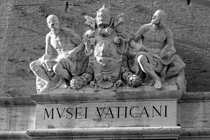 Sculptures above the entrance of the Vatican Museums in Rome, Italy.